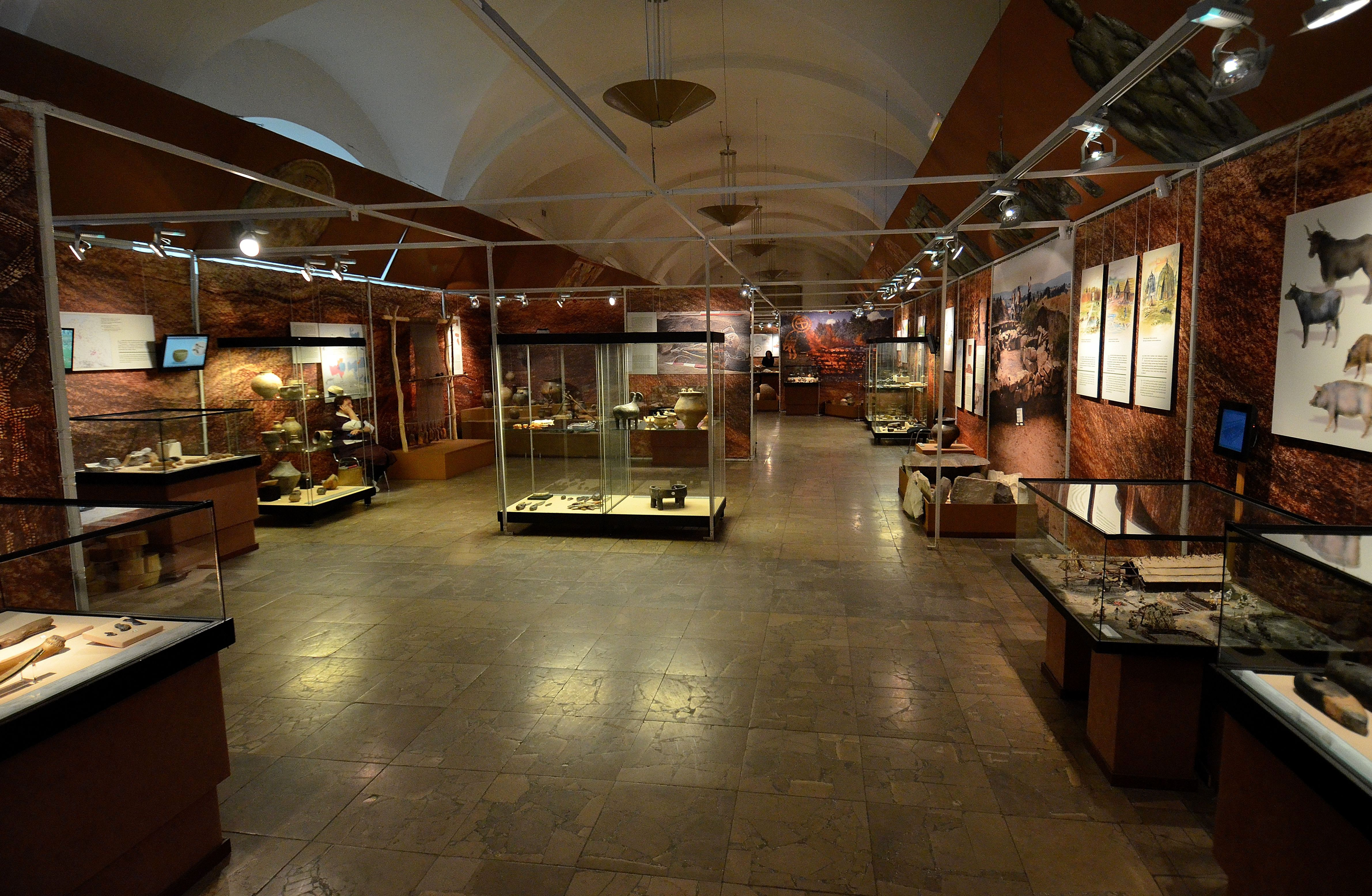 Exhibition at the State Archeological Museum in Warsaw